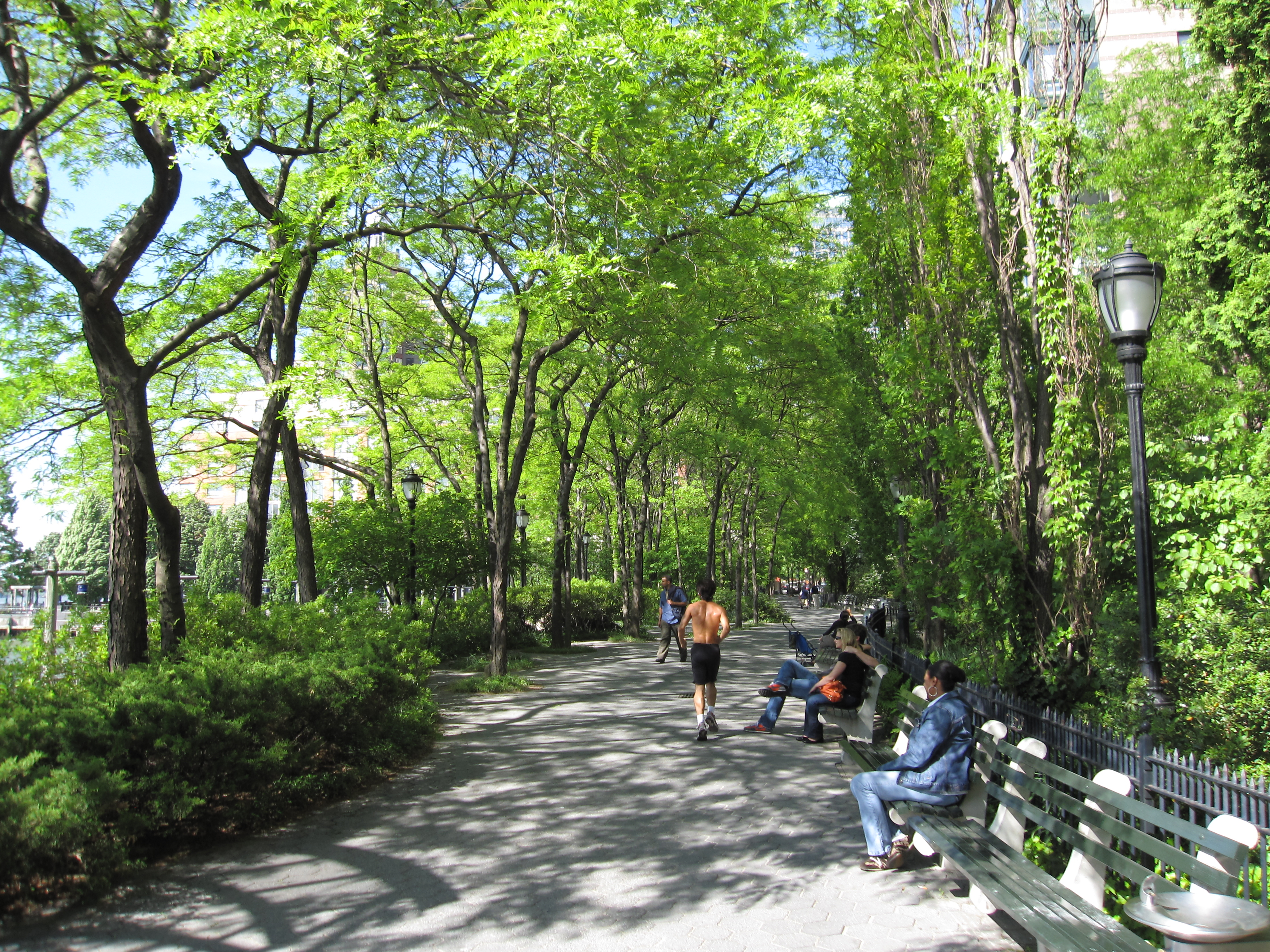 Park benches and walkway — Battery Park City.